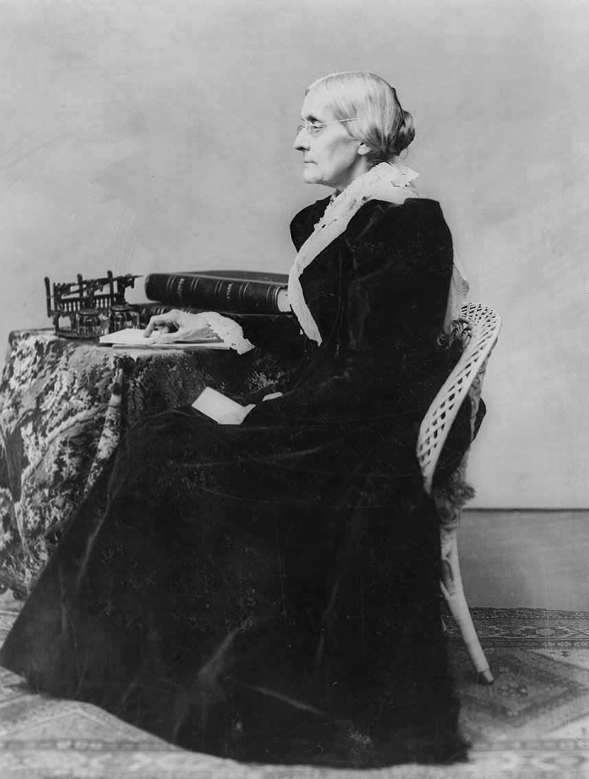 Susan B. Anthony, full-length portrait, seated, facing left